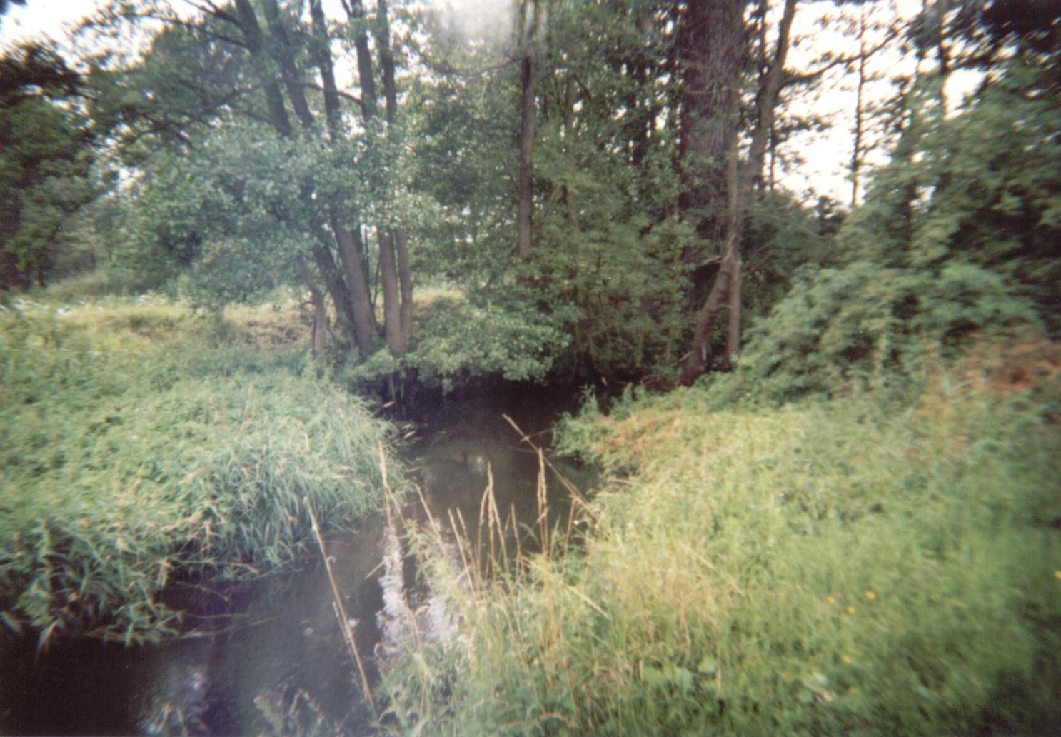 River Białka in Lodz Voividship, Poland